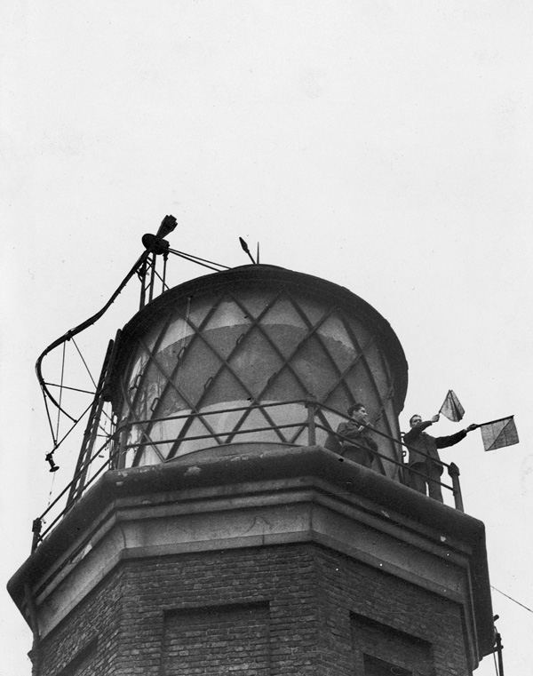 Reproduction ID: H3115 Maker: Unknown Date: circa 1950